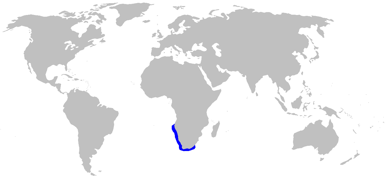 Distribution map for Triakis megalopterus